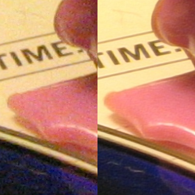 An example of super-resolution processing using PhotoAcute software for Windows. The left half shows the original, blown up to twice its normal size. The right half shows the image (at native resolution) that results when the software combines nine images together and does 2x superresolution (and dynamic range enhancement).